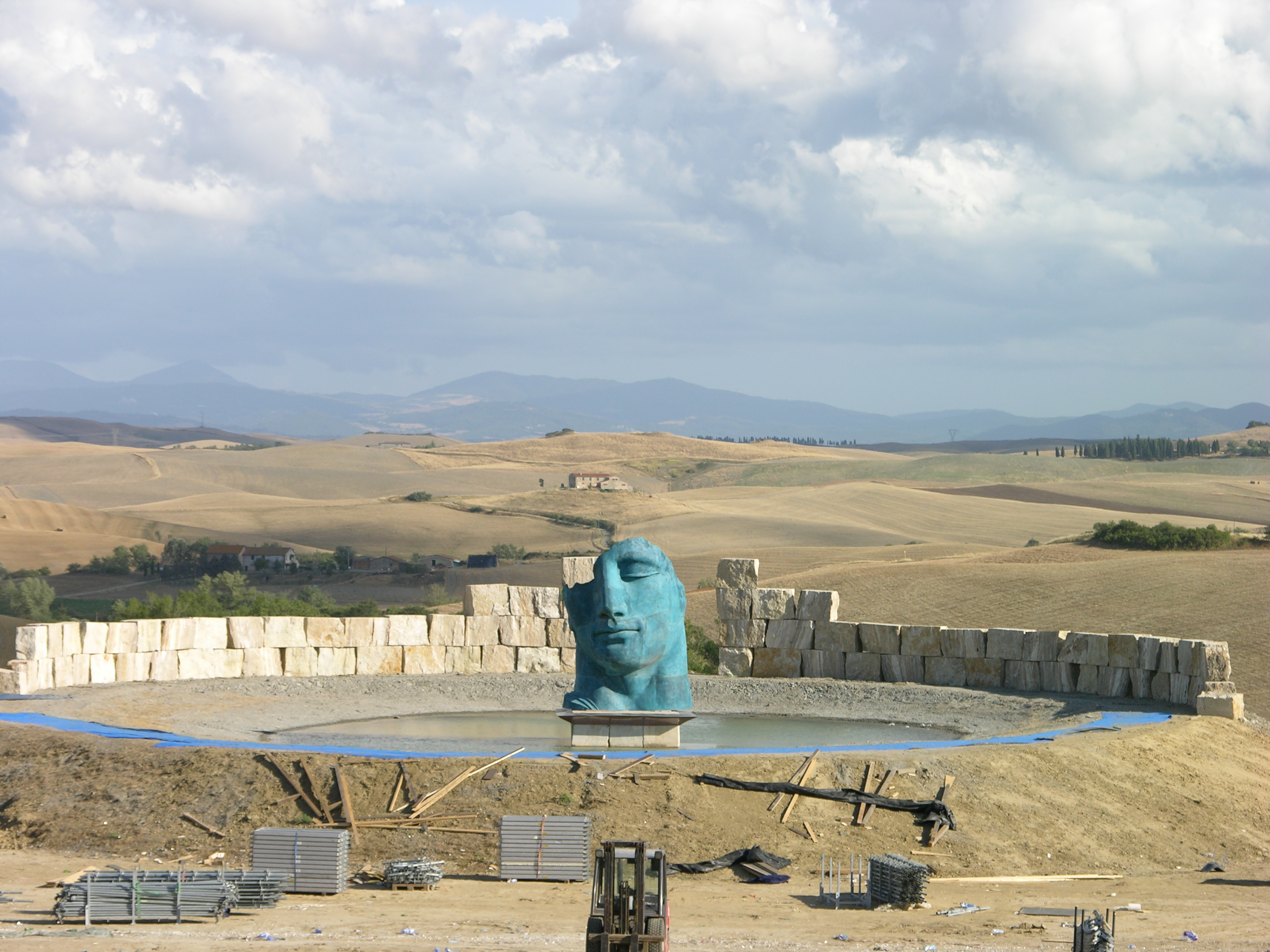 Lajatico - Theater of Silence